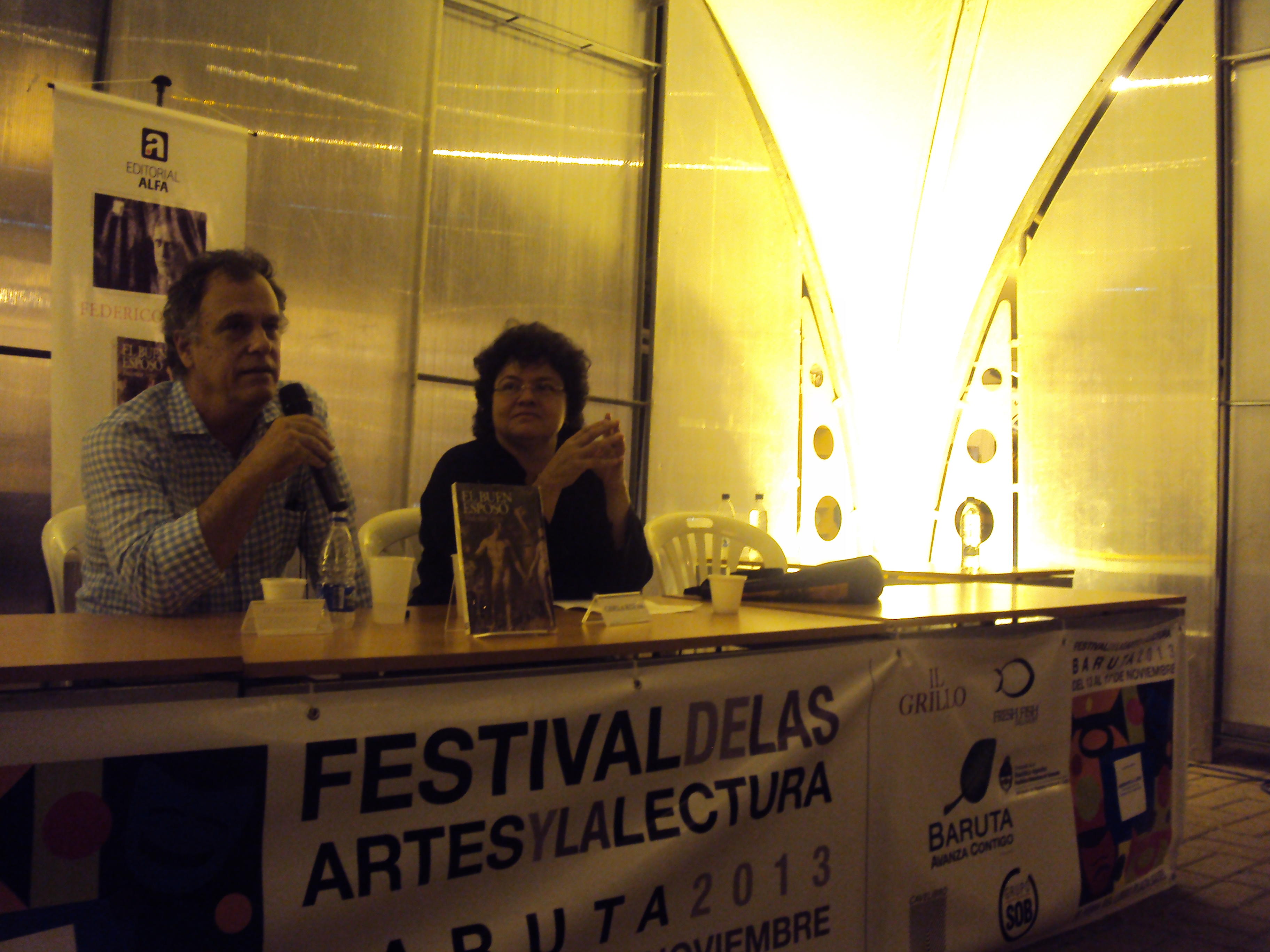 Venezuelan writers Federico Vegas and Gisela Kozak during the 2013 Baruta's Book Festival.